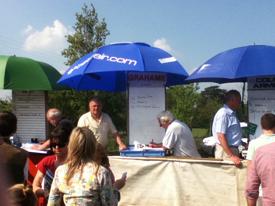 A photograph taken at the racecourse in Higham, Suffolk, England, which host point to point races. The photograph shows bookmakers' stands.